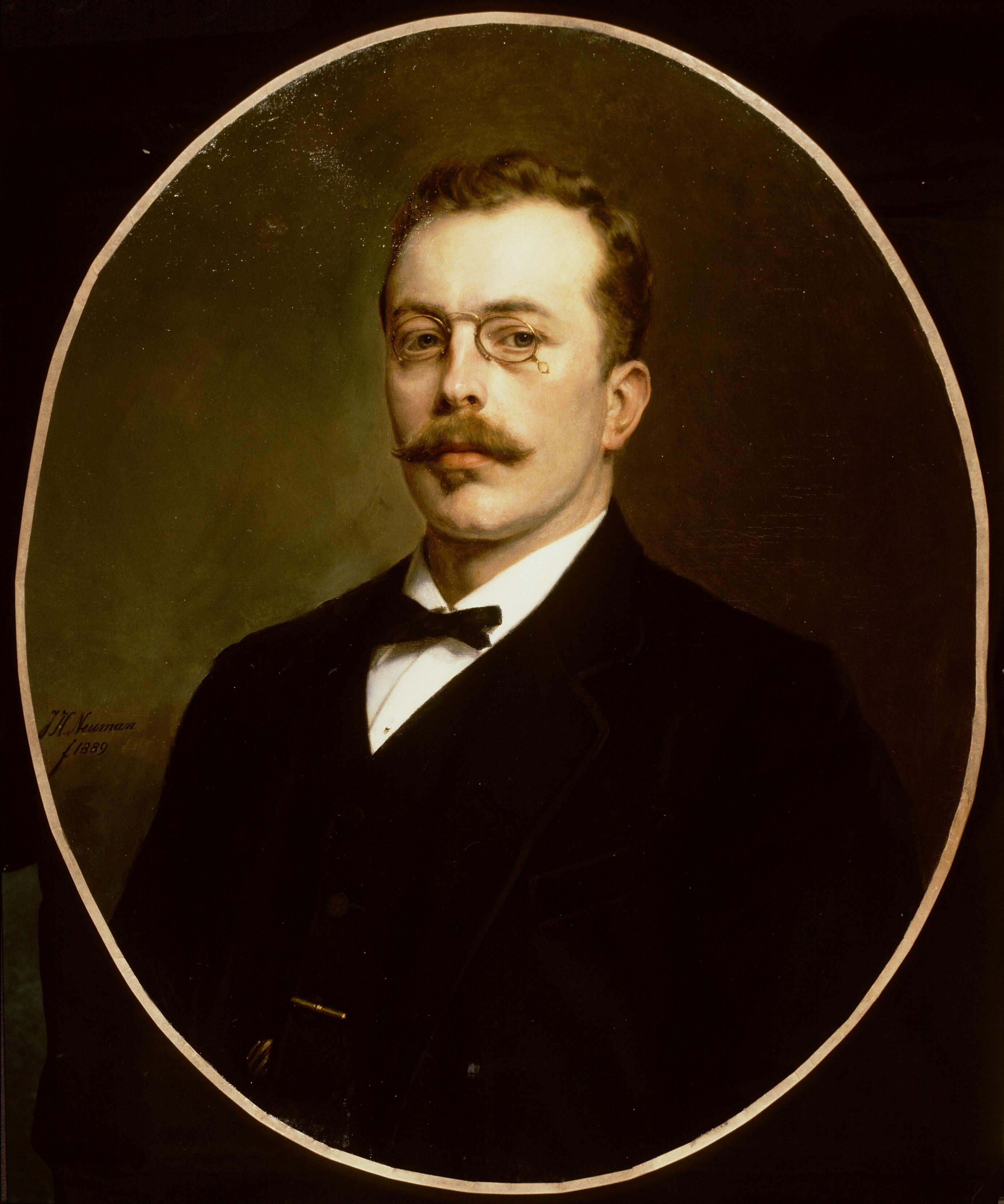 Johan Sippo Baron van Harinxma Thoe Slooten (1848-1904), Mayor of The Hague from 1898 to 1904. This image is available from the Netherlands Institute for Art Historyunder digital ID 142076. This tag does not indicate the copyright status of the attached work. A normal copyright tag is still required. See Commons:Licensing for more information.